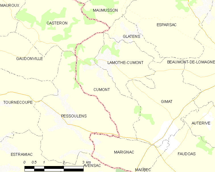 Map of French municipality Cumont